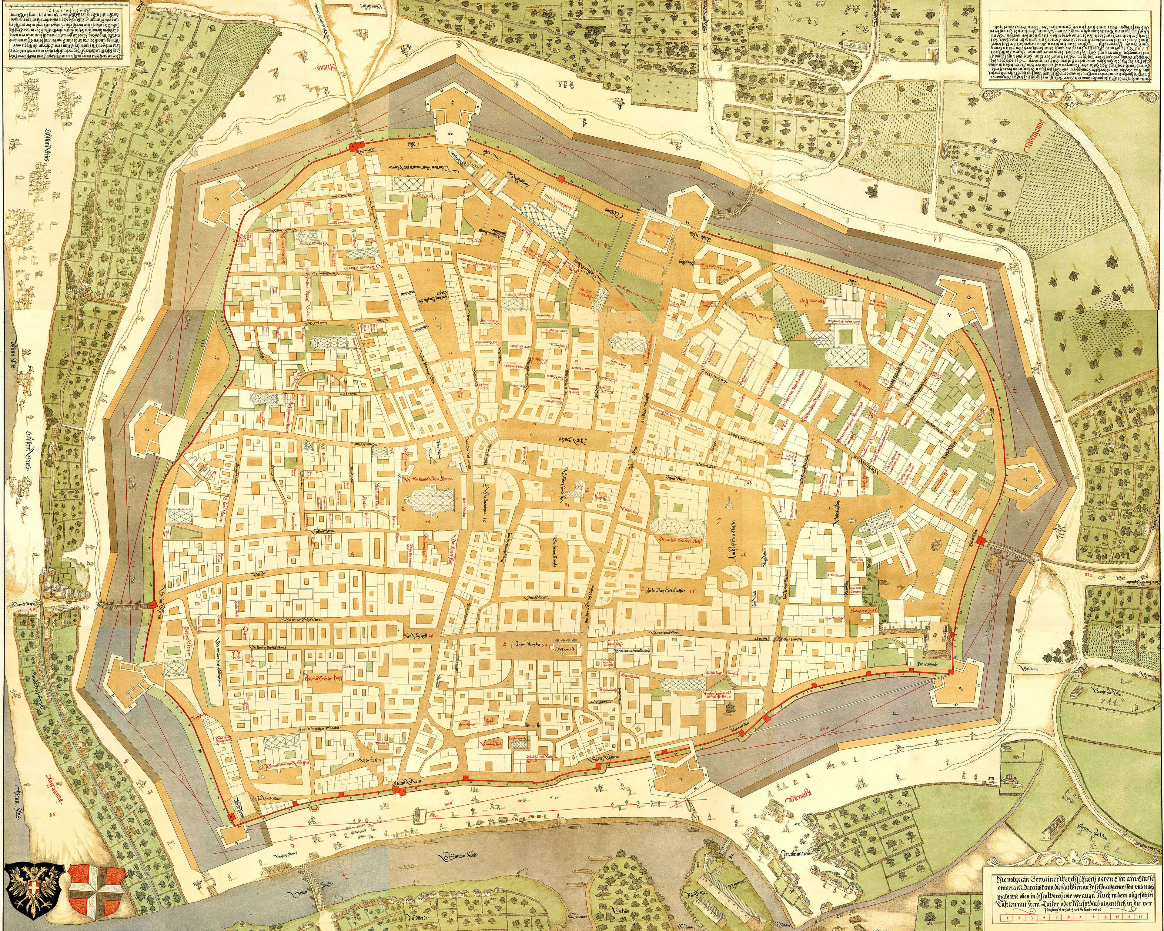 Historical map of Vienna, original by Bonifaz Wolmuet. Reproduction of a map from 1547 made by Albert Camesina in 1857